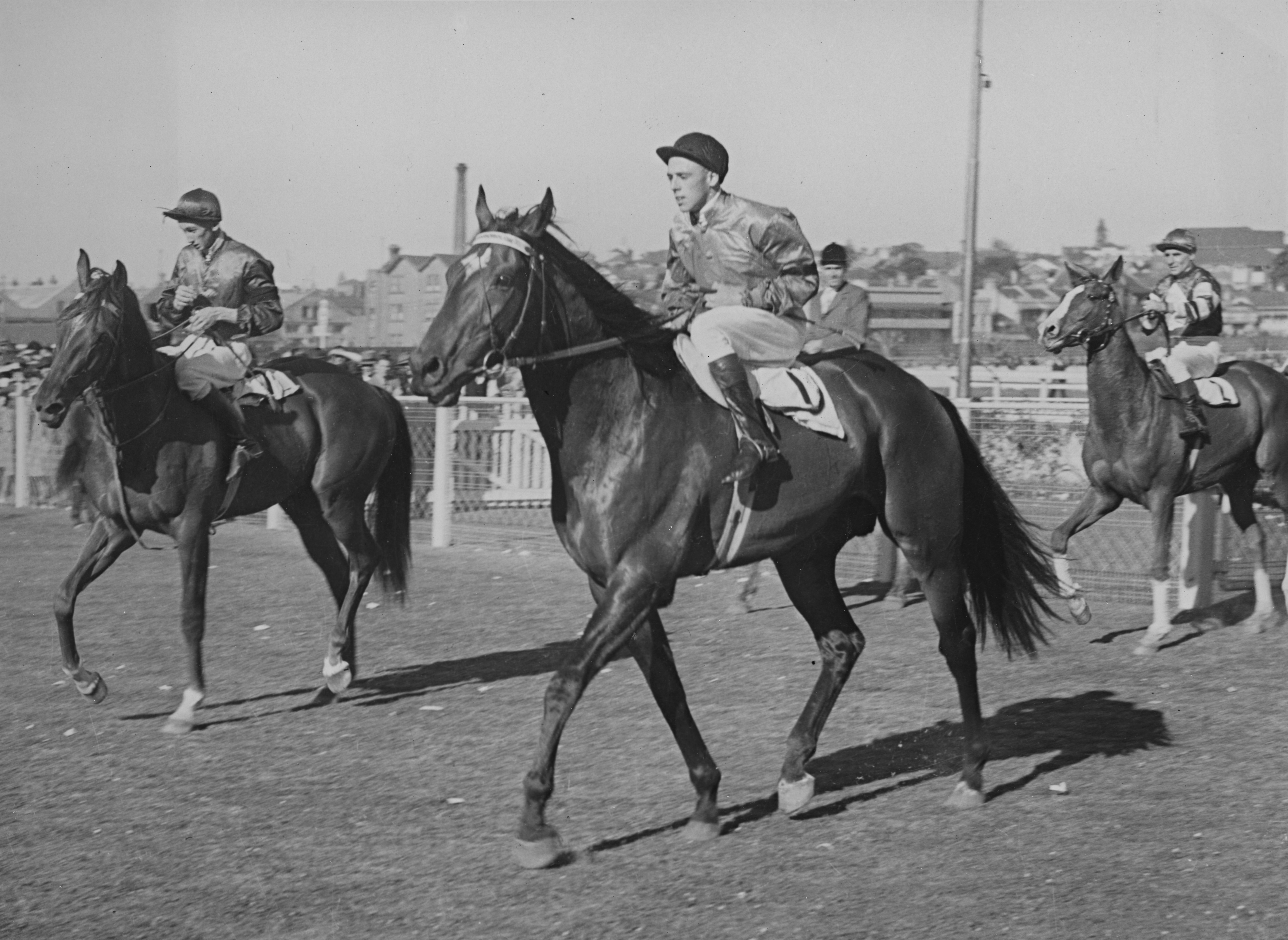 Bernborough,1946 Tatts Chelmsford Stakes Jockey Athol Mulley